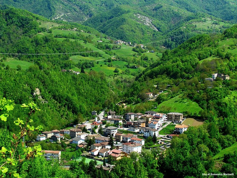 Valle Castellana is a town in the province of Teramo in the Italian region Abruzzo